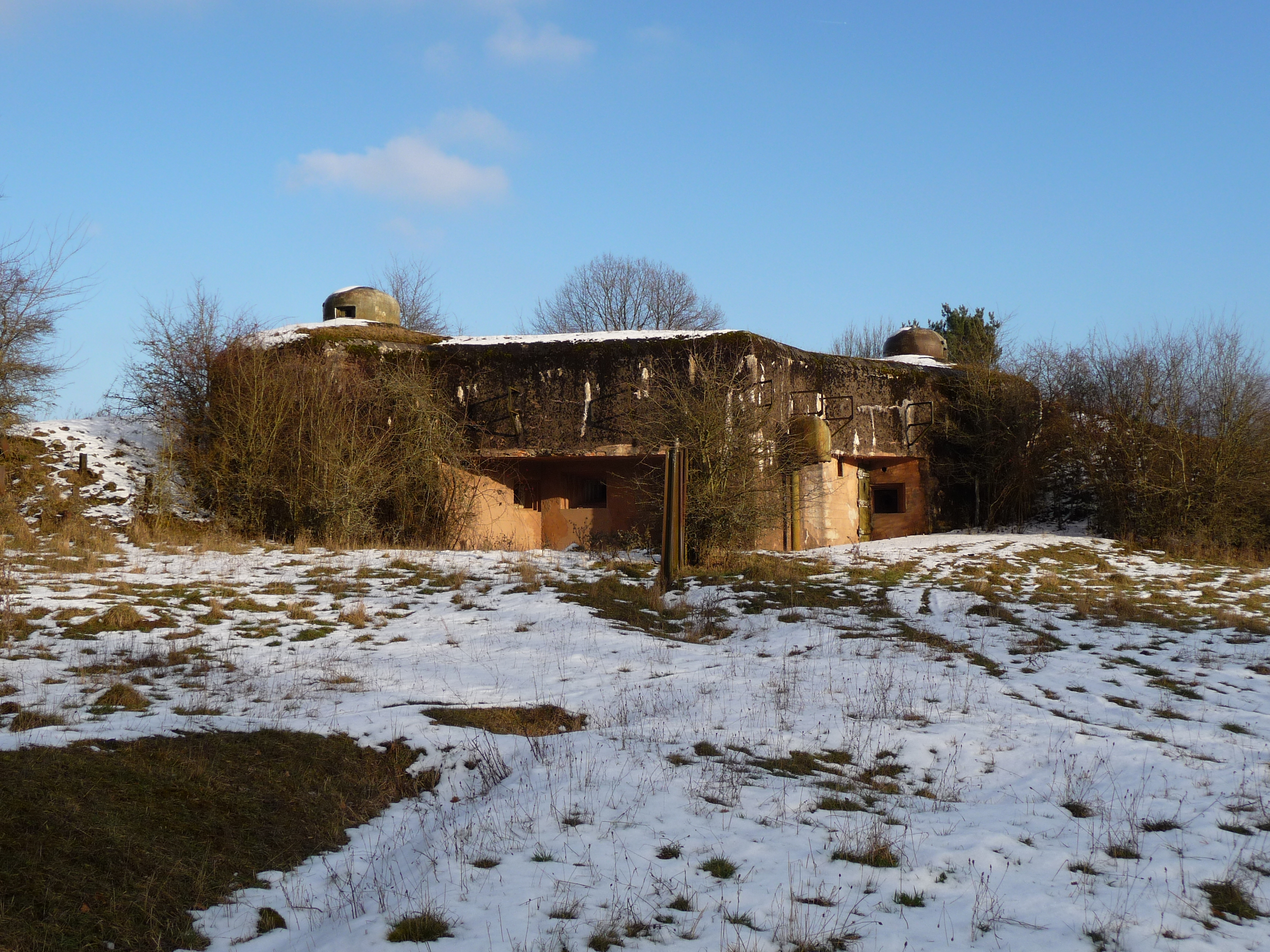 The block 1 at the work of Lembach (Ligne Maginot), Alsace, France